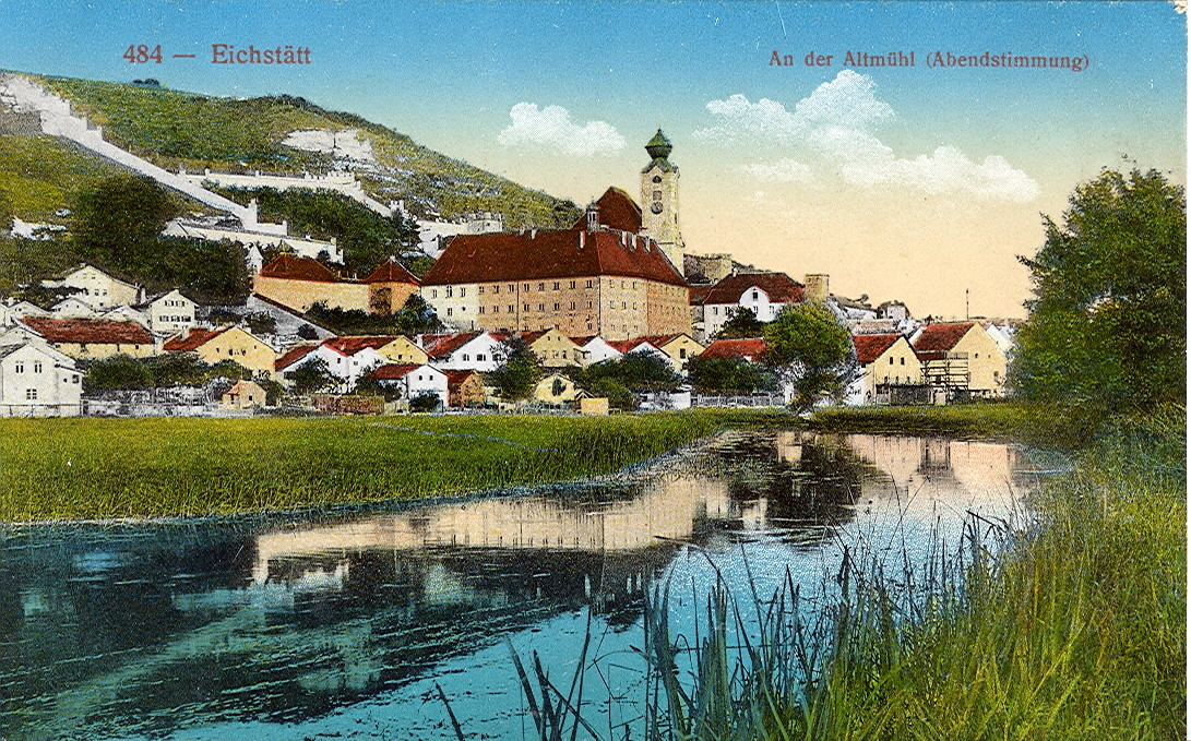 Postcard, undated ( ca. 1914 ). Title: "Eichstätt - Altmühl river at dawn".